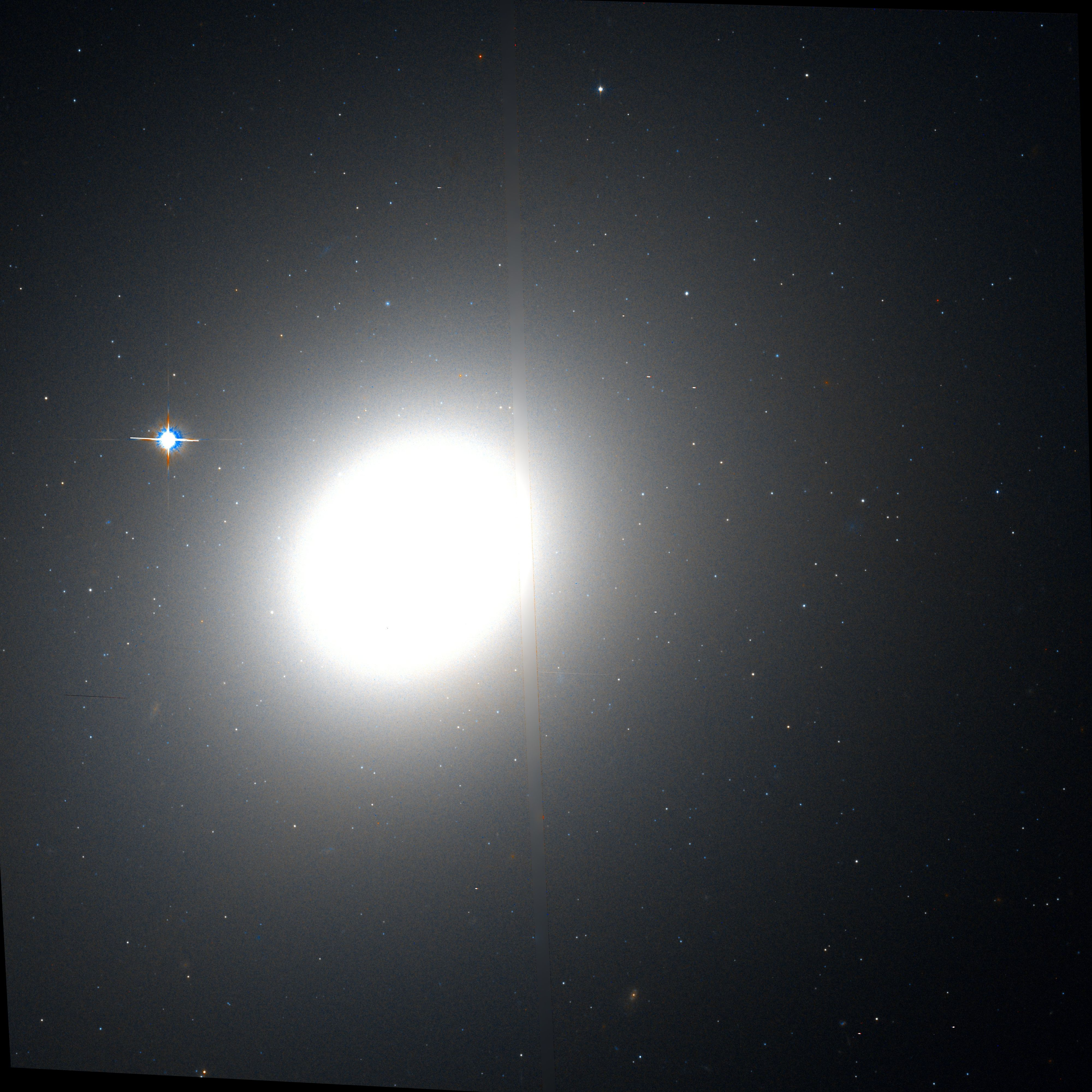 Messier 49 by Hubble space telescope